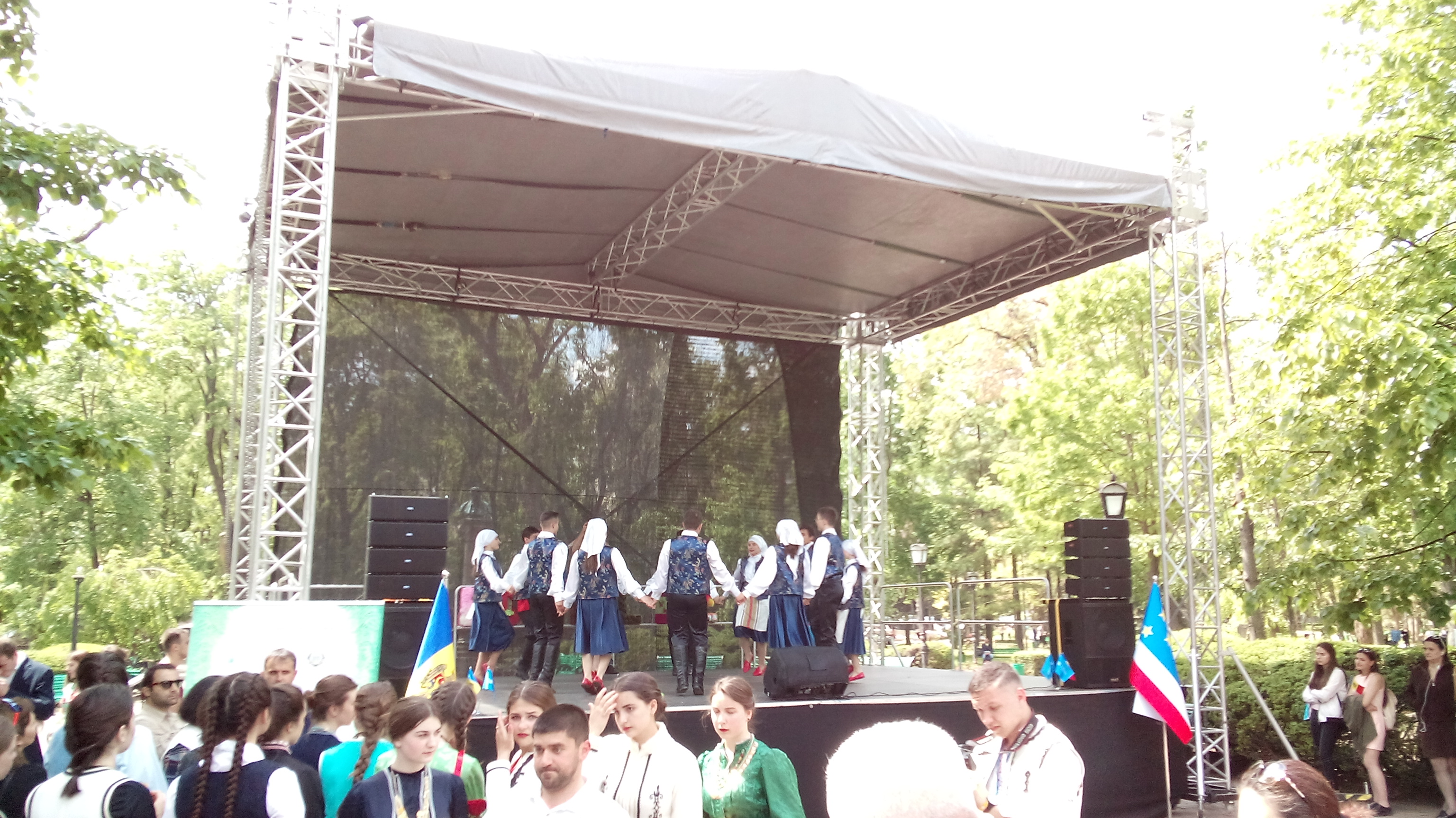 Gagauzi people of Moldova, celebrating Hederlez in the Ștefan cel Mare Central Park of Chișinău: dance